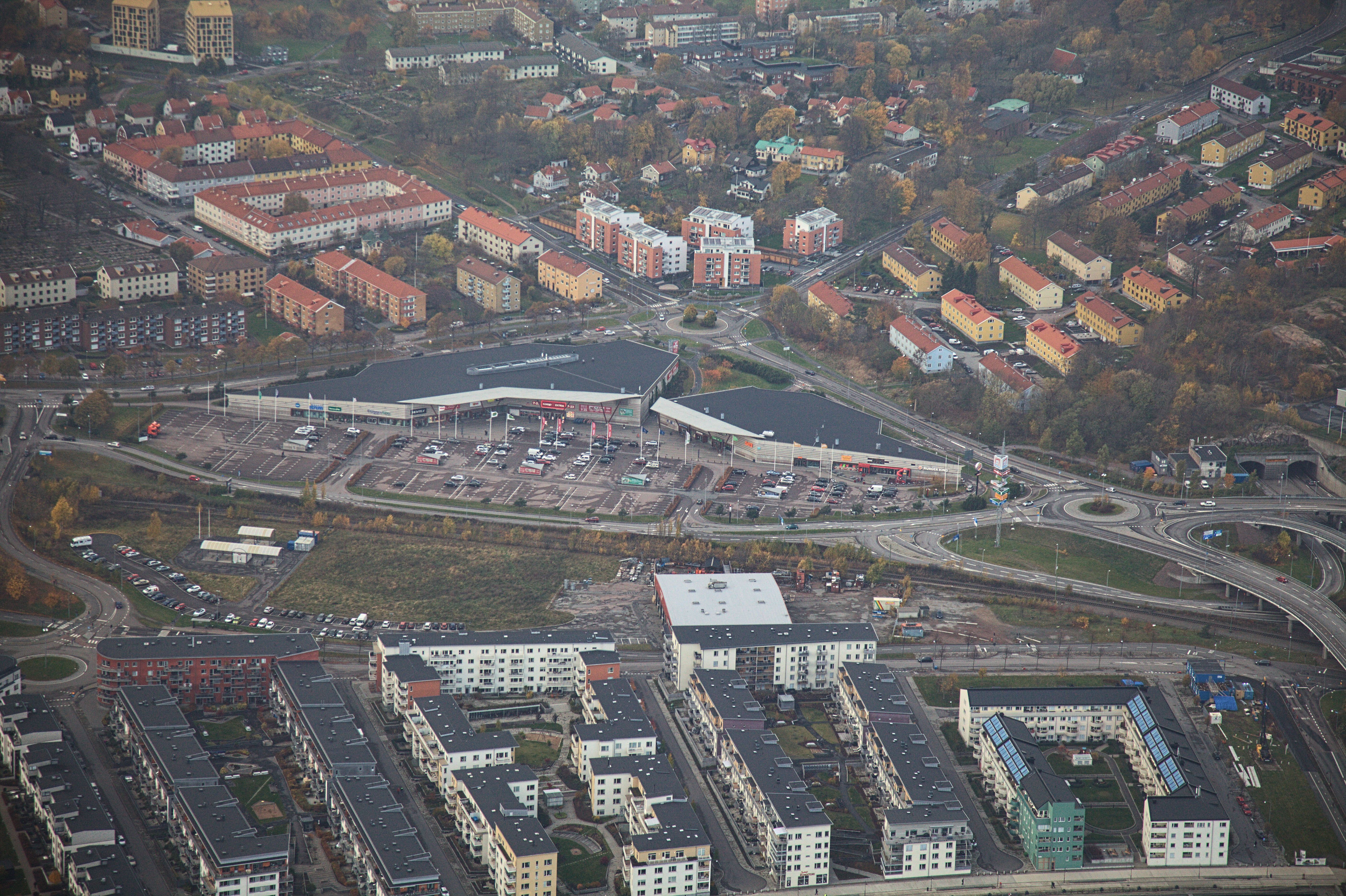 Photo taken on a helicopter over Gothenburg